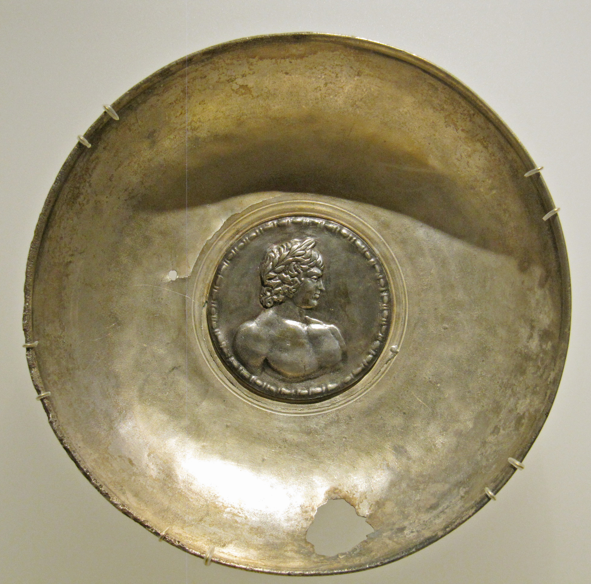 "The phiale with the portrait of Antinoe (Antinous) found in burial 1 of Armaziskhevi must have come from Rome in the form of diplomatic gift" State Museum of History of Georgia (Tbilisi Archaeological Museum)